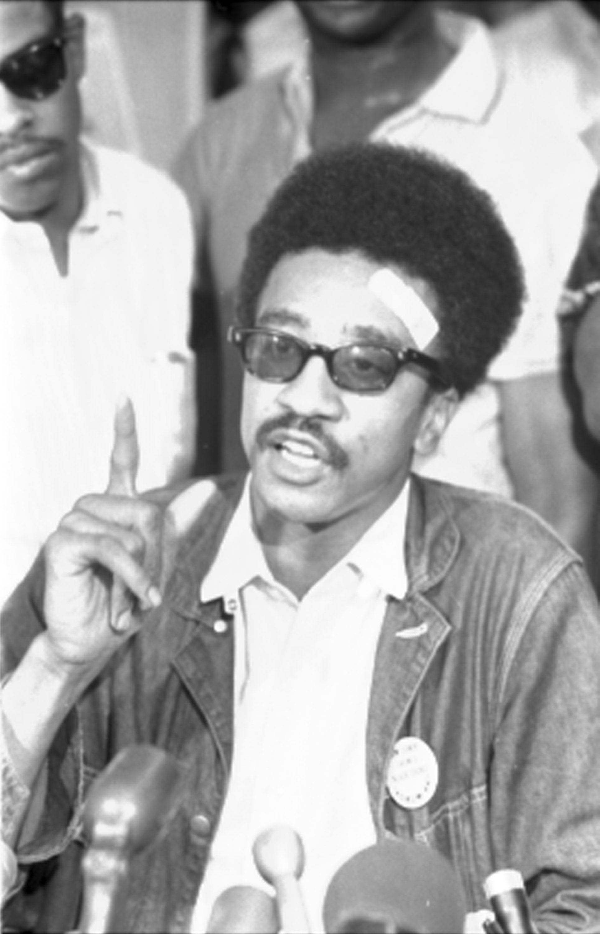 Library of Congress description: "H. Rap Brown, SNCC [i.e., Student Nonviolent Coordinating Committee], news conf[erence]"